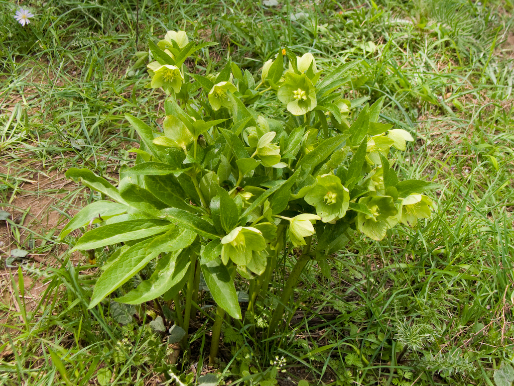 Greek Hellebore Ranunculaceae - Mount Parnassus area, Delphii, Greece